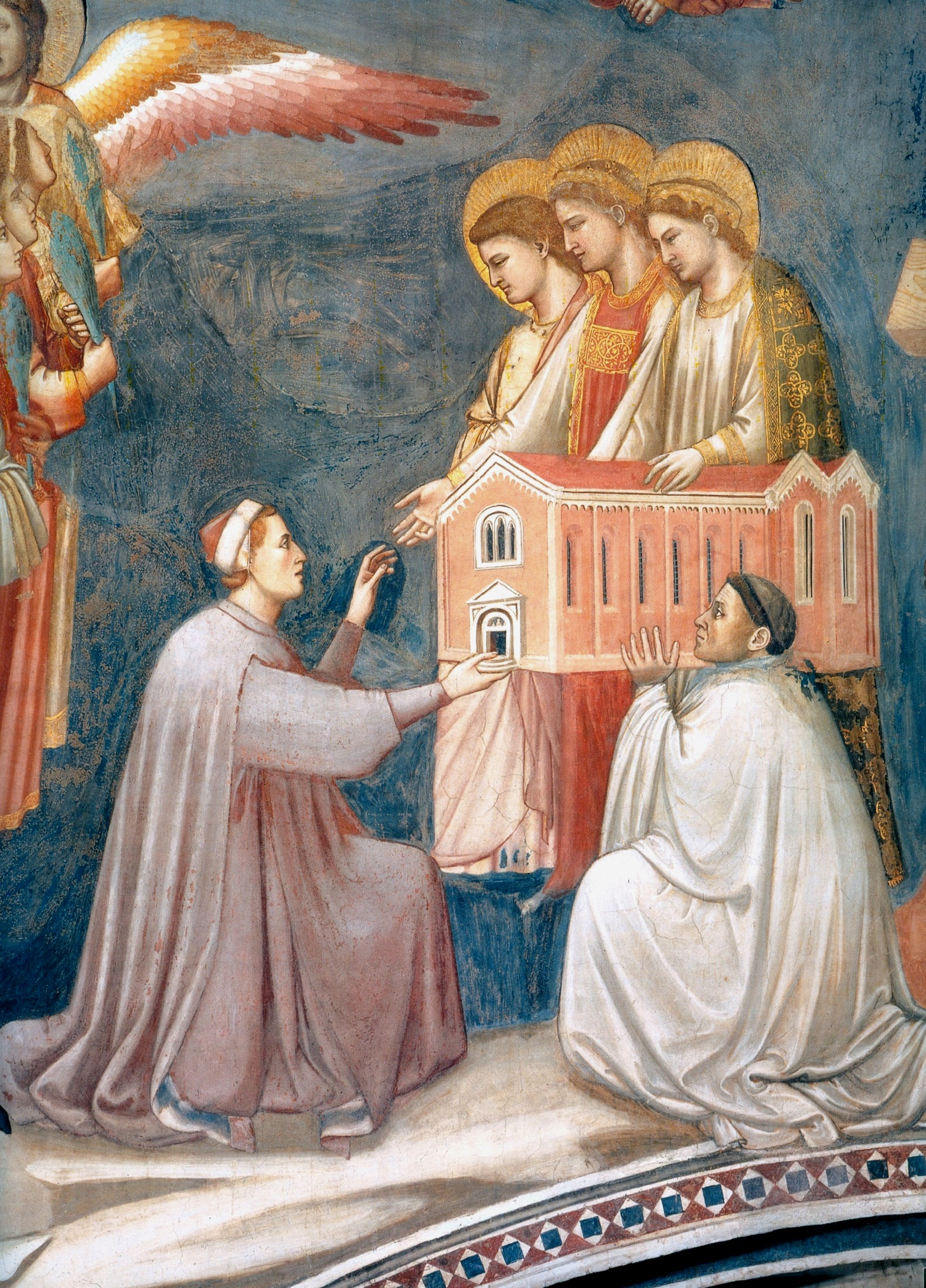 Detail of Last Judgment: Enrico Scrovegni gives to Madonna the model of Cappella Scrovegni